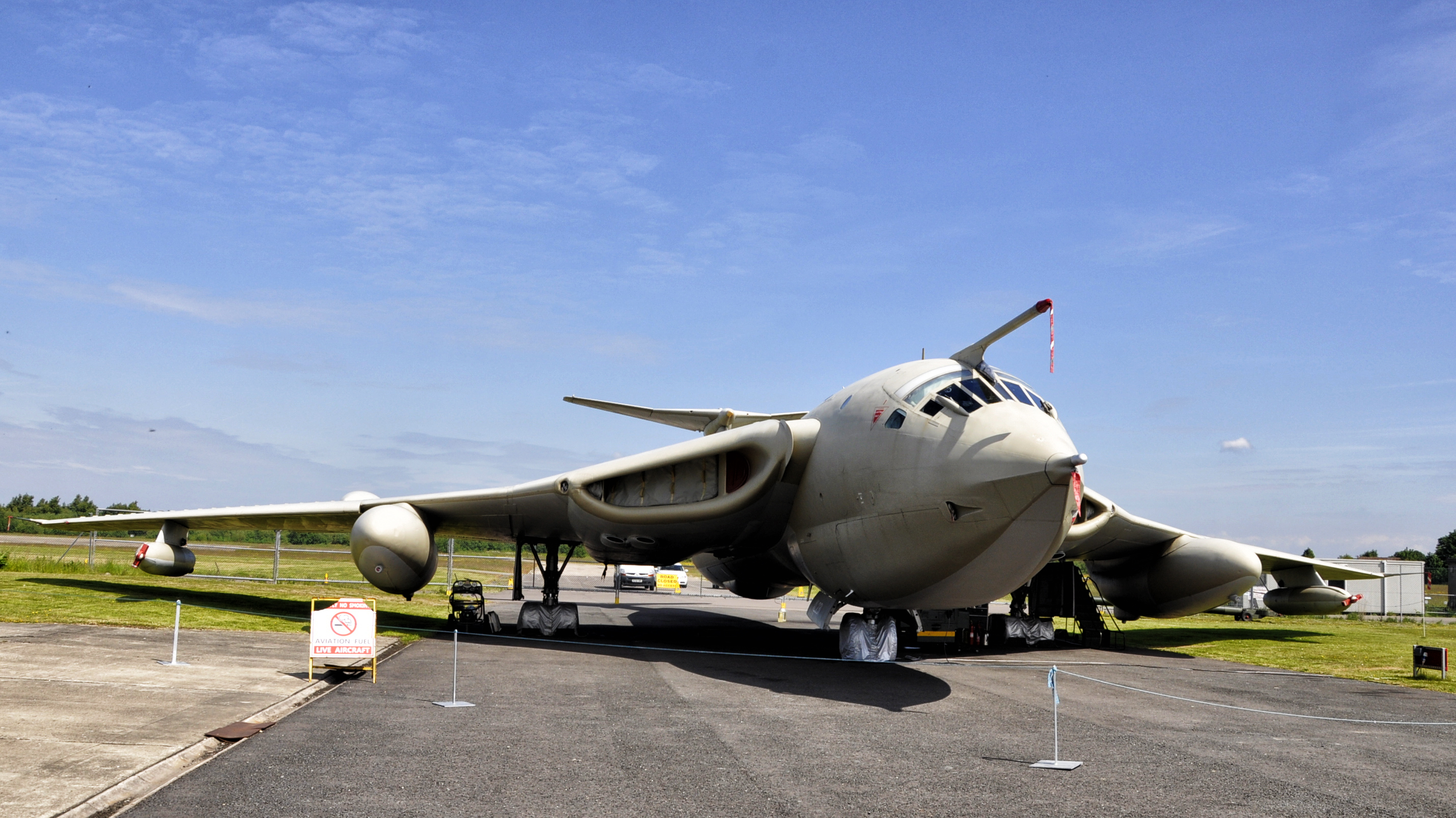 A Handley Page Victor XL231 at the Yorkshire Air Museum - Elvington, UK